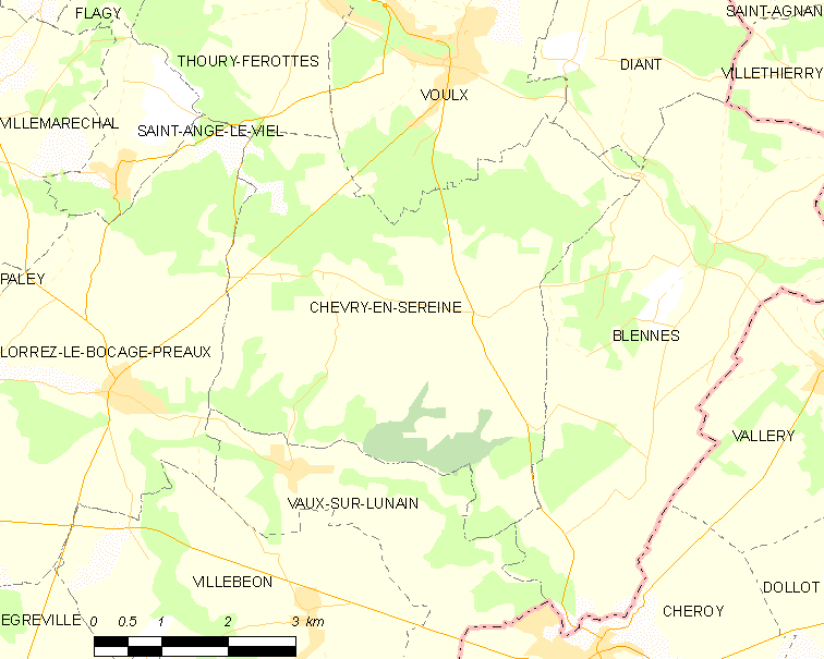 Map of French municipality Chevry-en-Sereine